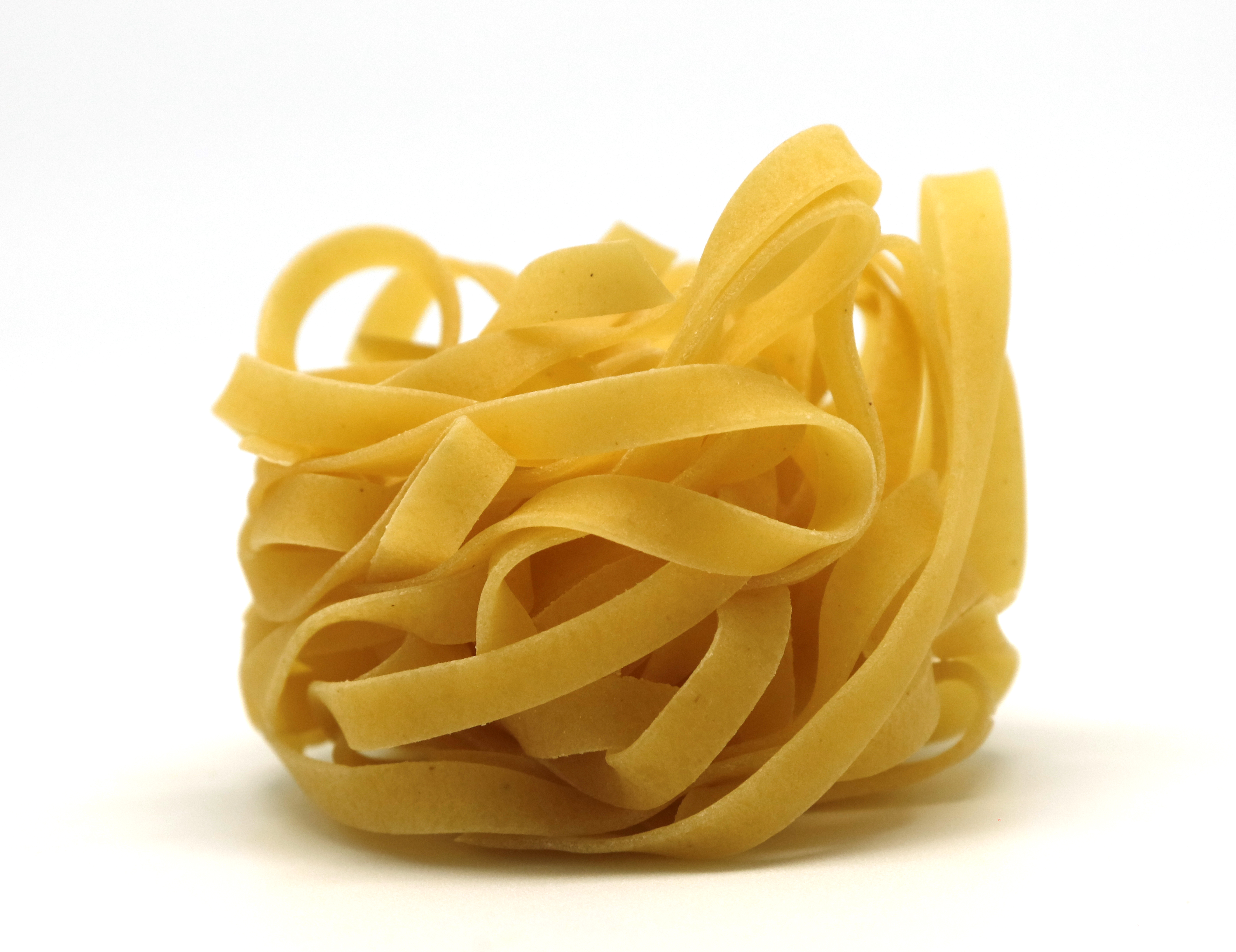 Tagliatelle, a type of italian pasta (brand: Barilla, Italy)